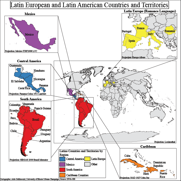 A map of Latin American and Latin European countries and territories.